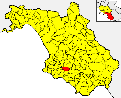 Locator map of the municipality of Salento (red) within the Province of Salerno